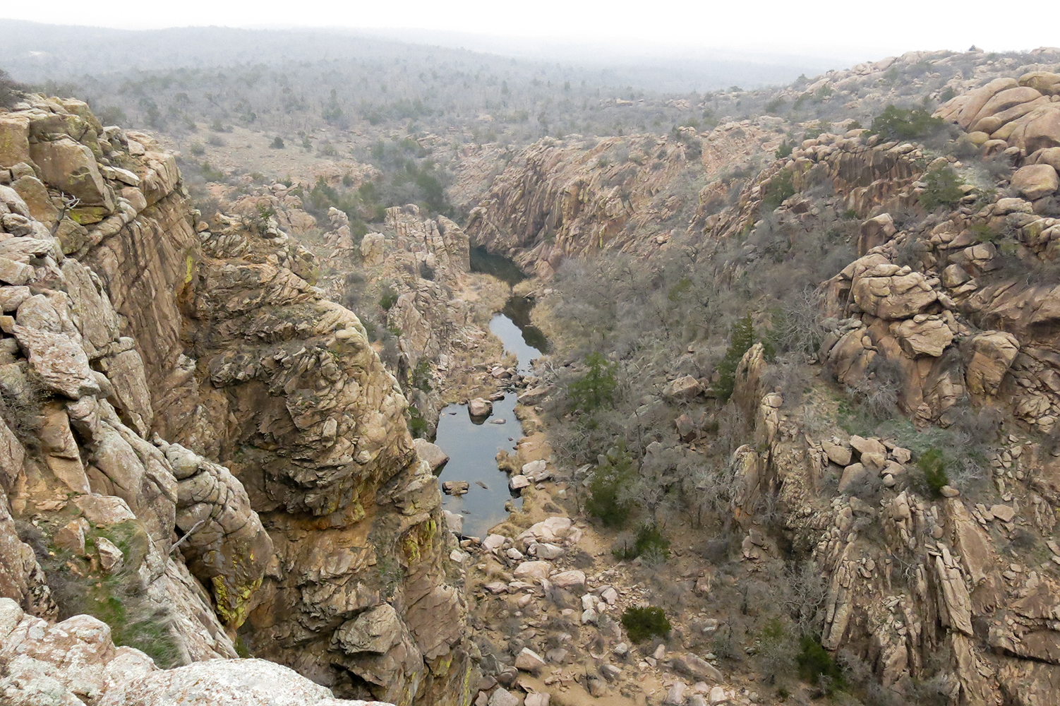 The Narrows, Wichita Mountains Wildlife Refuge, Oklahoma